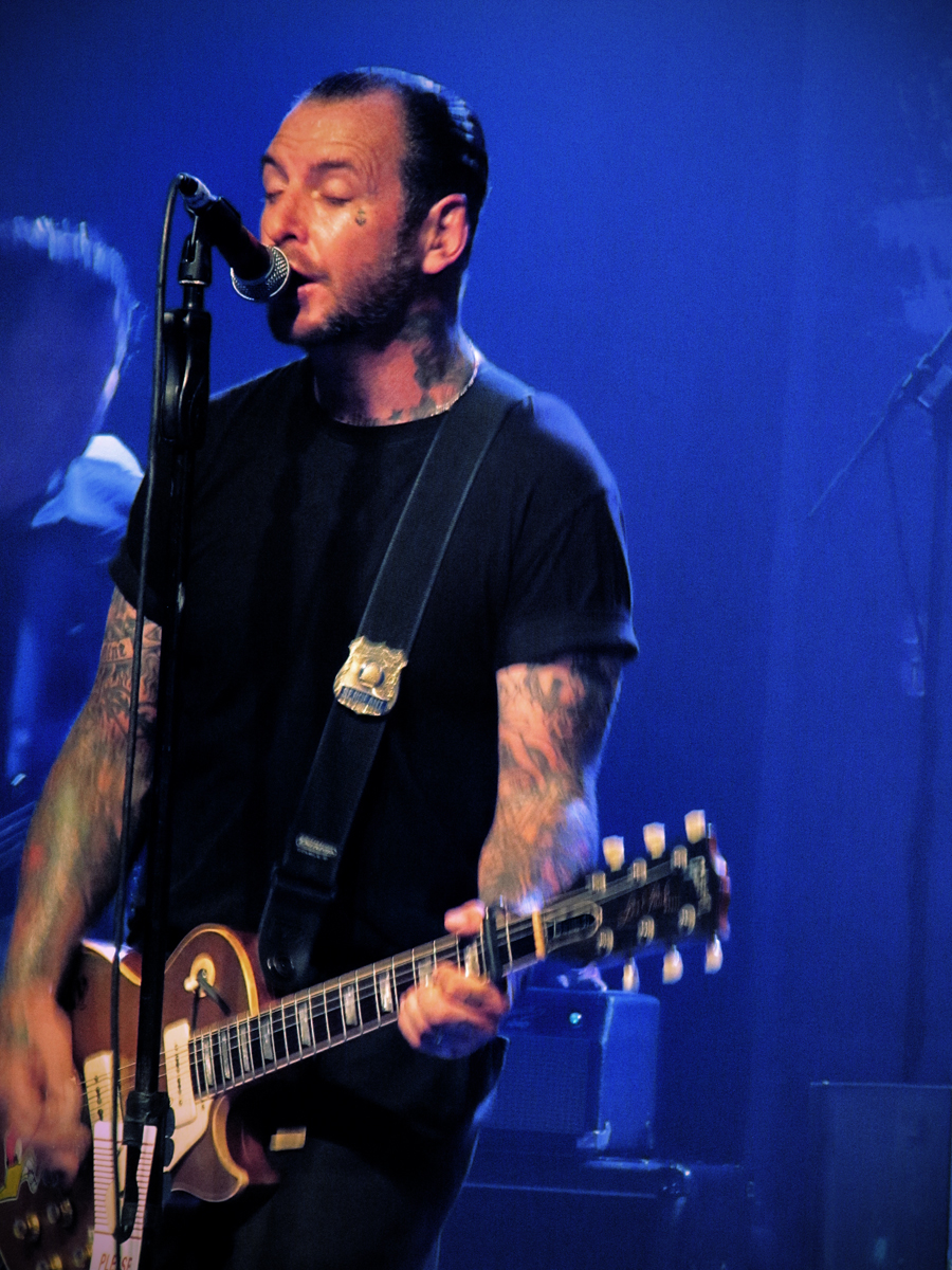 Mike Ness live